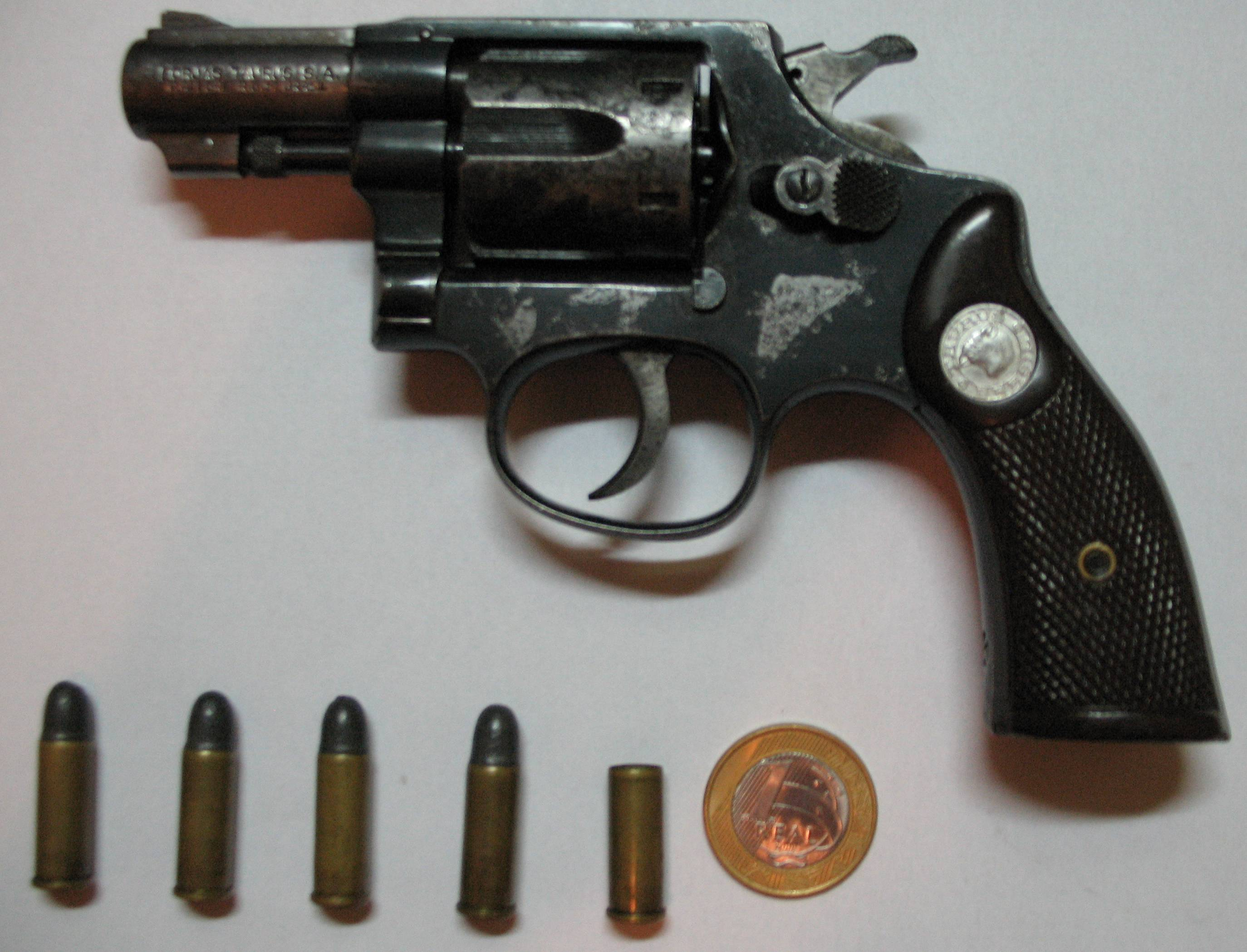 This is an Old Forjas Taurus 6 shot revolver, chambered for the .32 S&W long. Chromed 2 barrel and plastic grips.Under the gun there are 4 cartridges of 32 SWL ammo, with one fired brass. The coin pictured here is a Brazilian 1 Real (BRL).